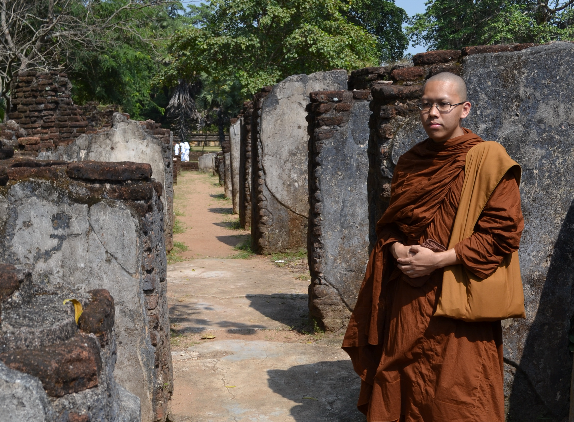 Buddhist monk Location: Royal Palace, Polonnaruwa.